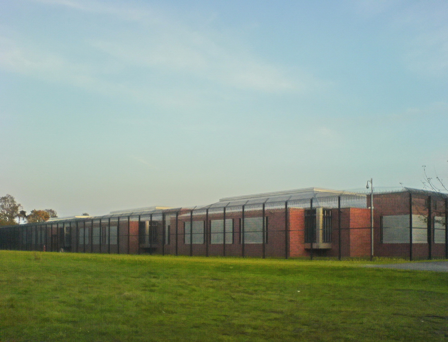 Isar-Amper-Klinikum Munich-East (Haar). A former district hospital, newly-built high-security wing of the department of forensic psychiatric patients/offenders